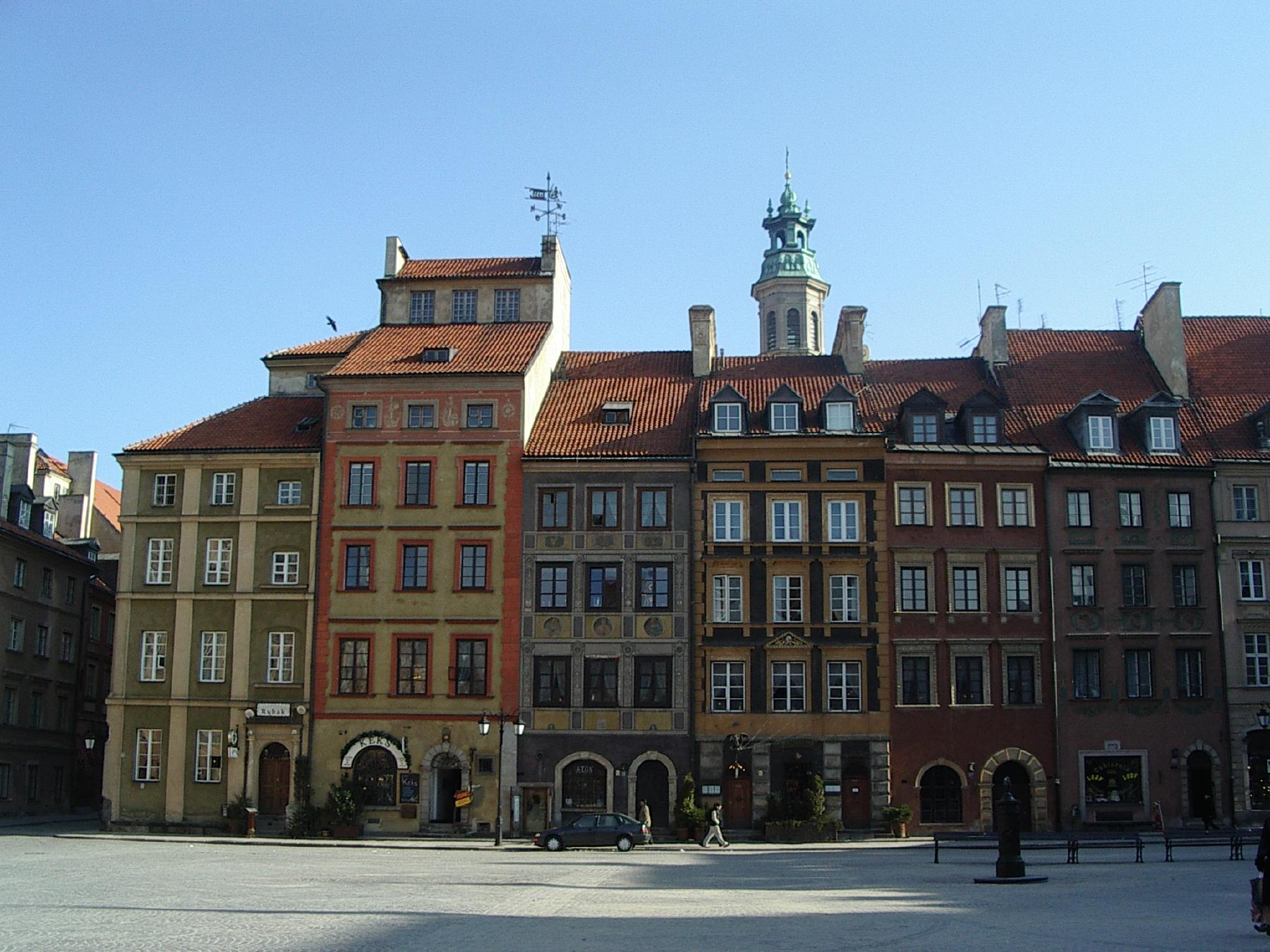 Completely destroyed in the second world war...